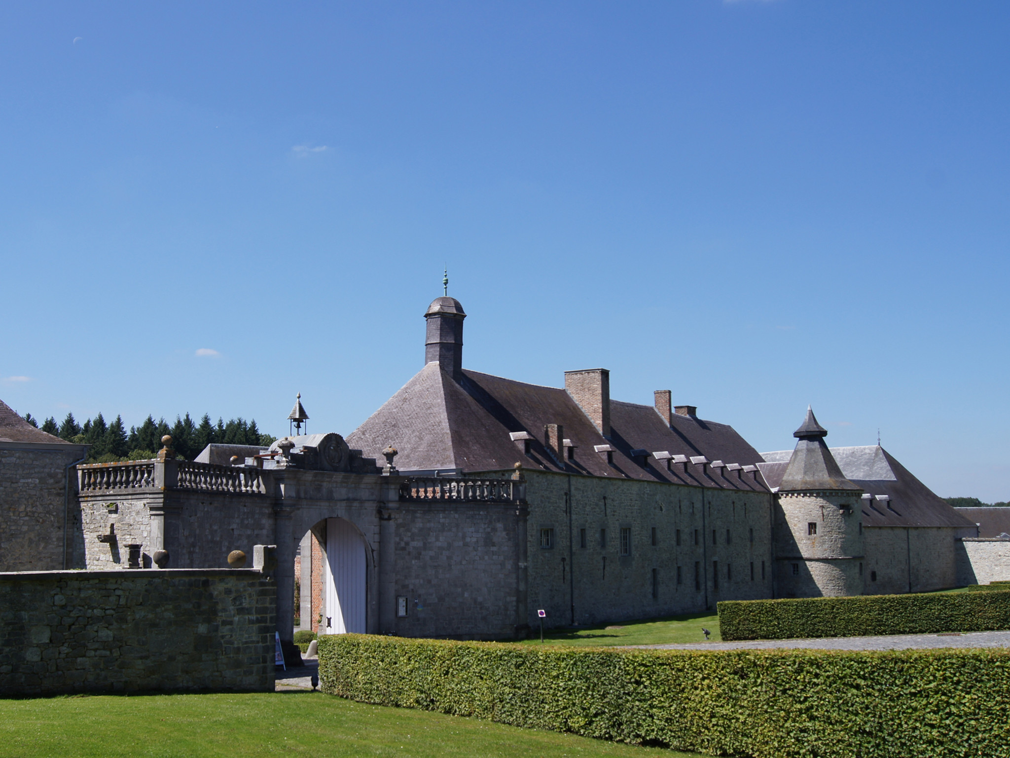 Modave castle